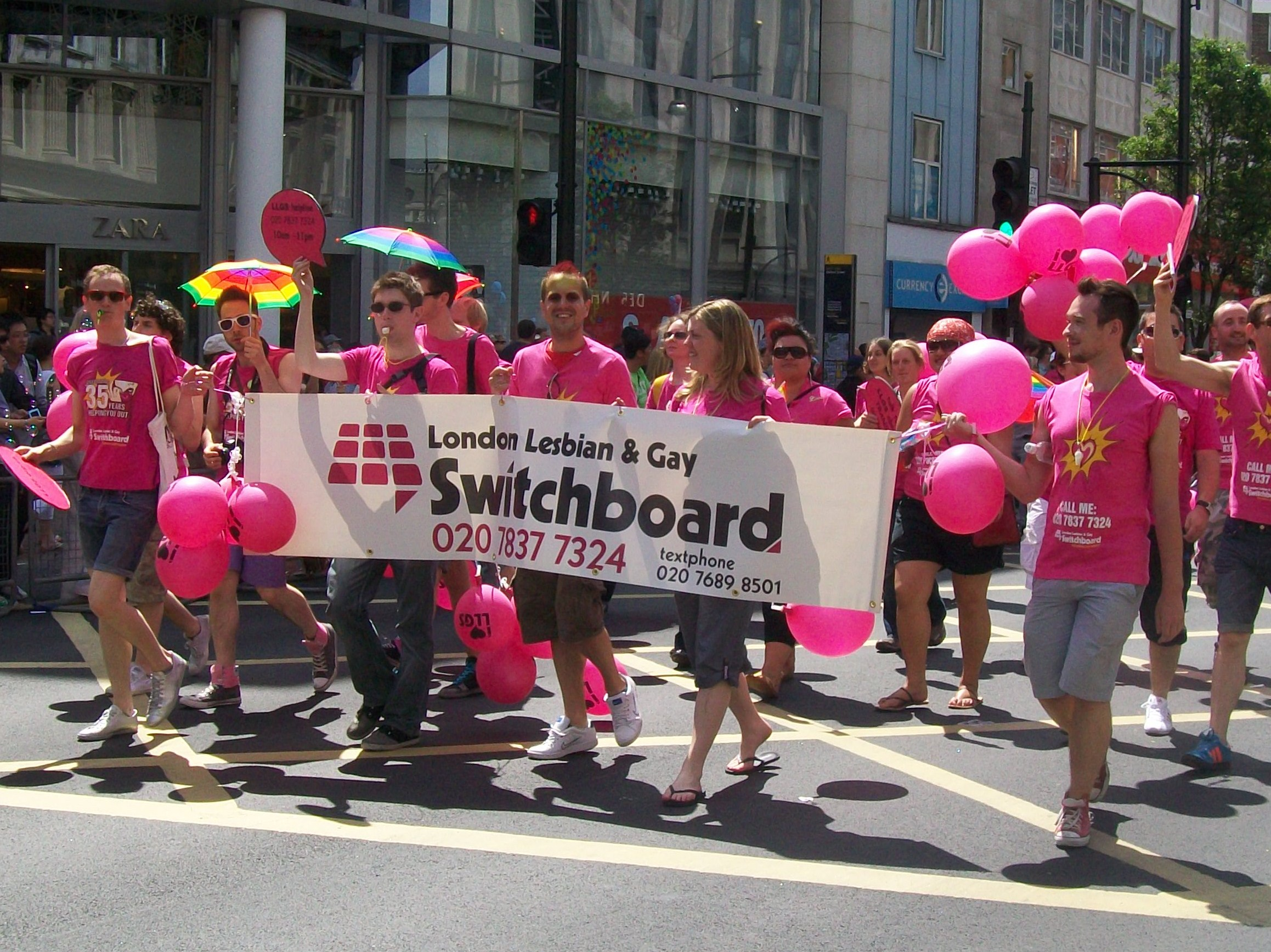 Pride London, 3 July 2010.